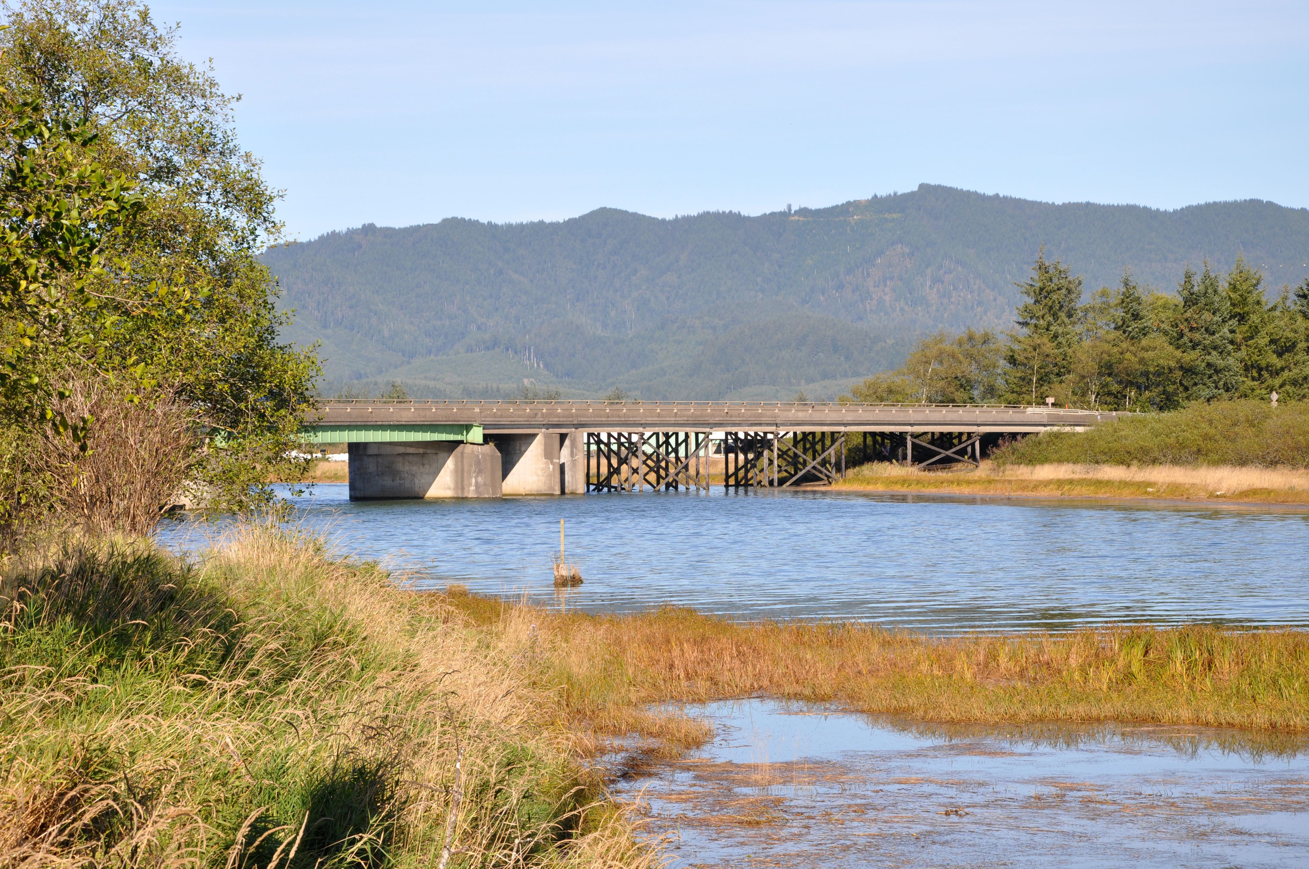 Tillamook River near Tillamook, Oregon, in the United States. View is downstream, north, toward a bridge carrying Oregon Route 131 over the river about 1 mile (1.6 km) from its mouth on Tillamook Bay.